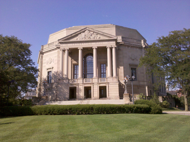 Severance Hall